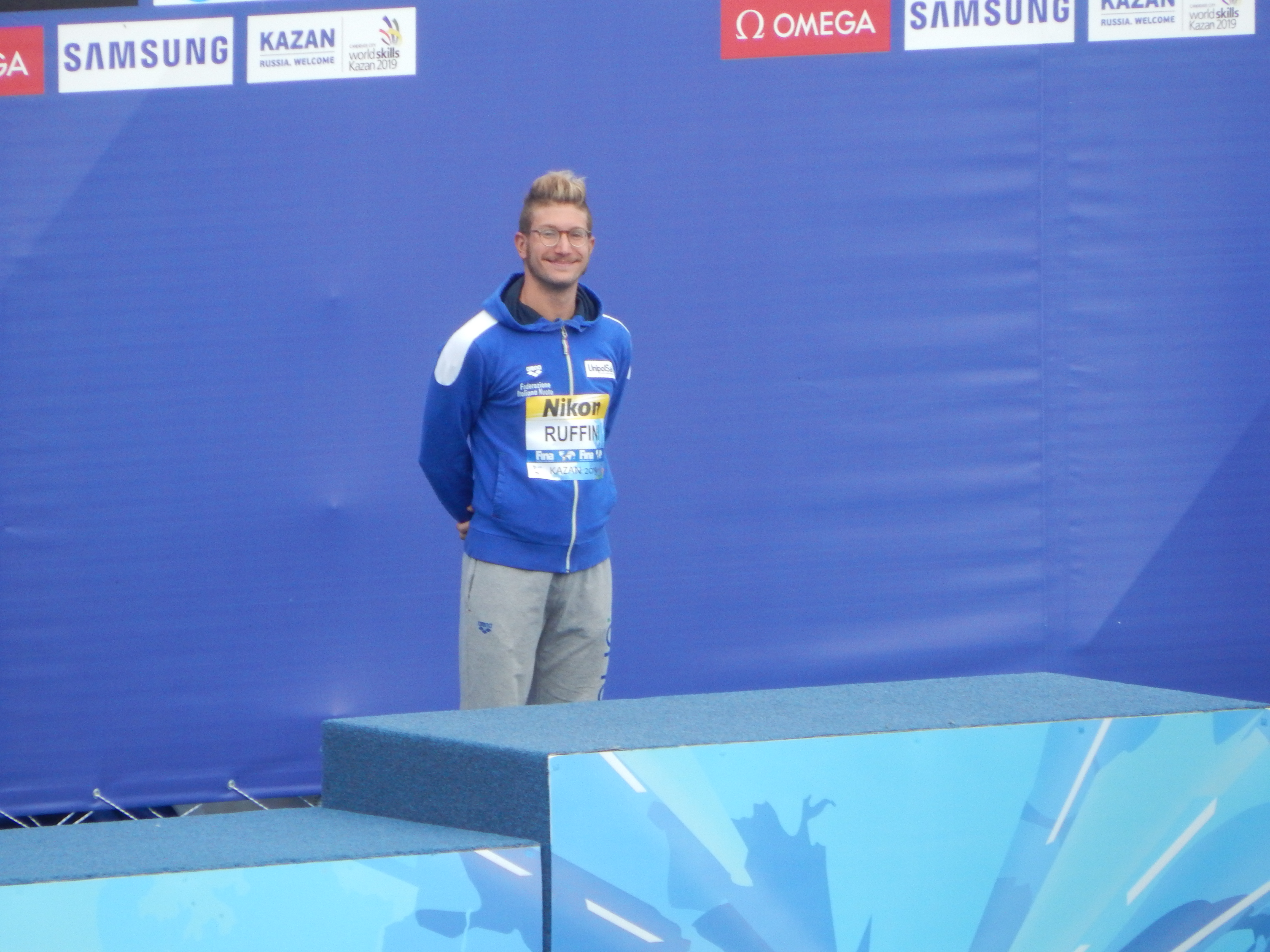 Simone Ruffini, first in the 25km race (open water) at the 2015 World Aquatics Champs in Kazan